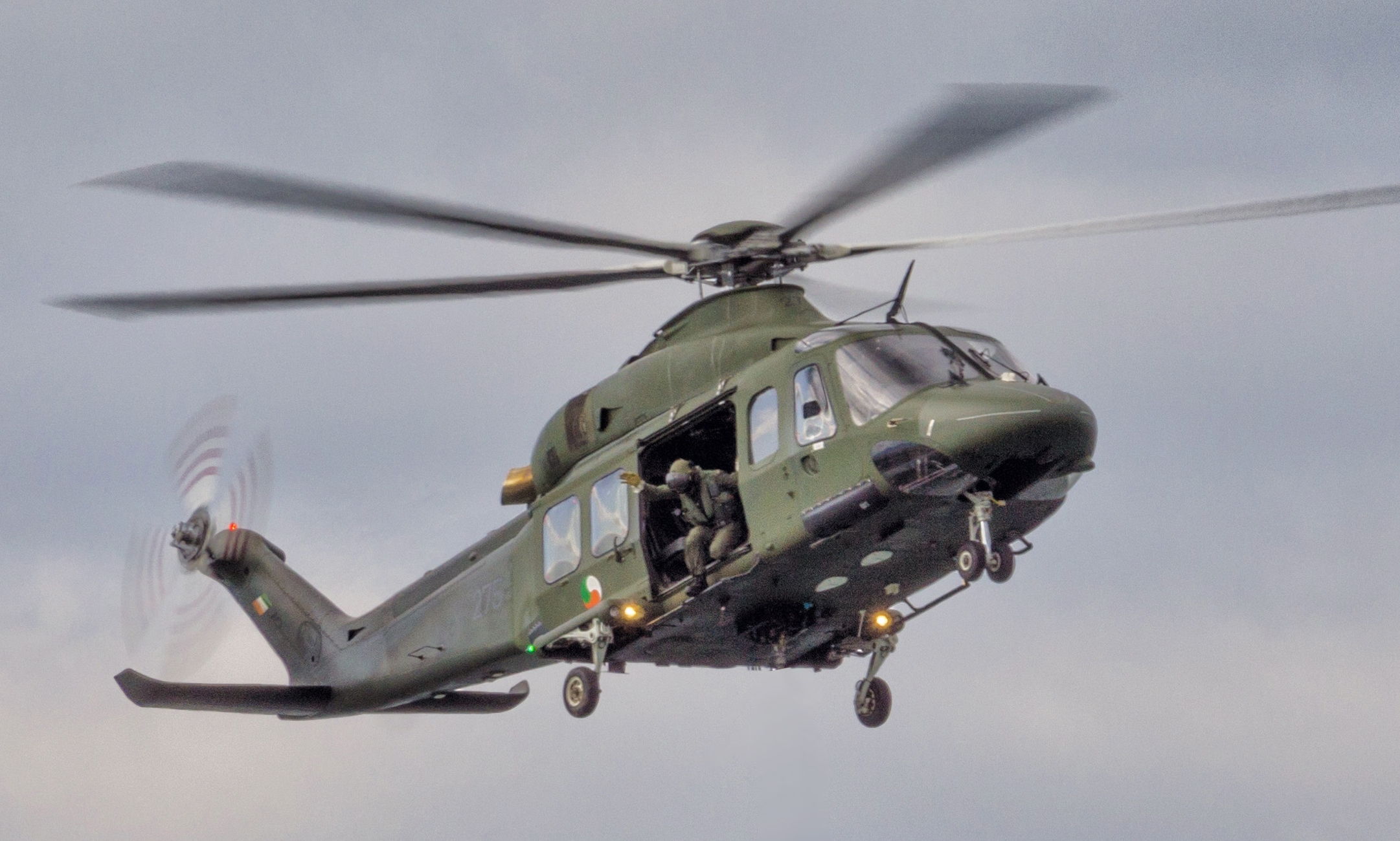 Air Corps Agusta Westland AW139